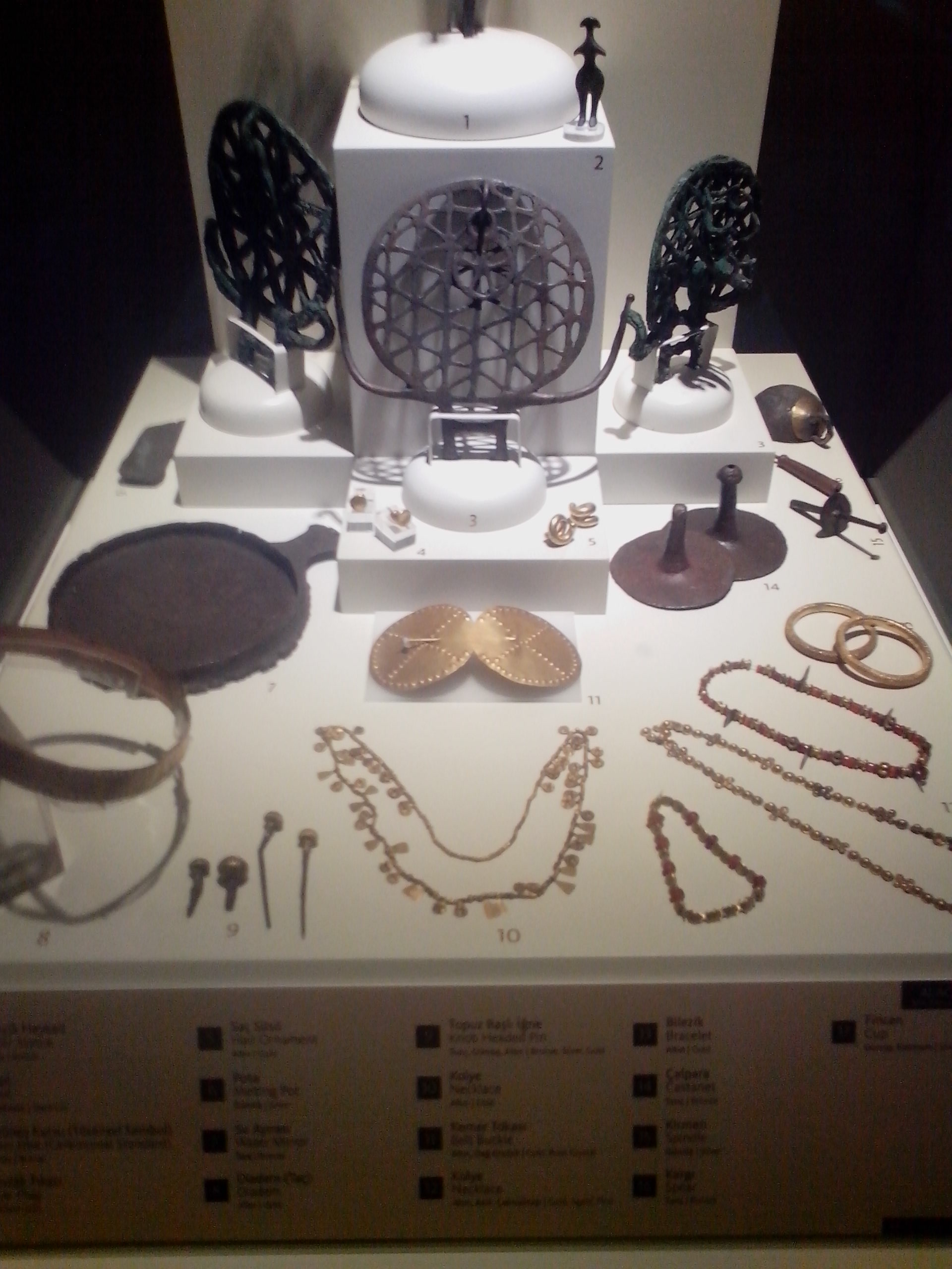 Ancient Jewelry-Turkey